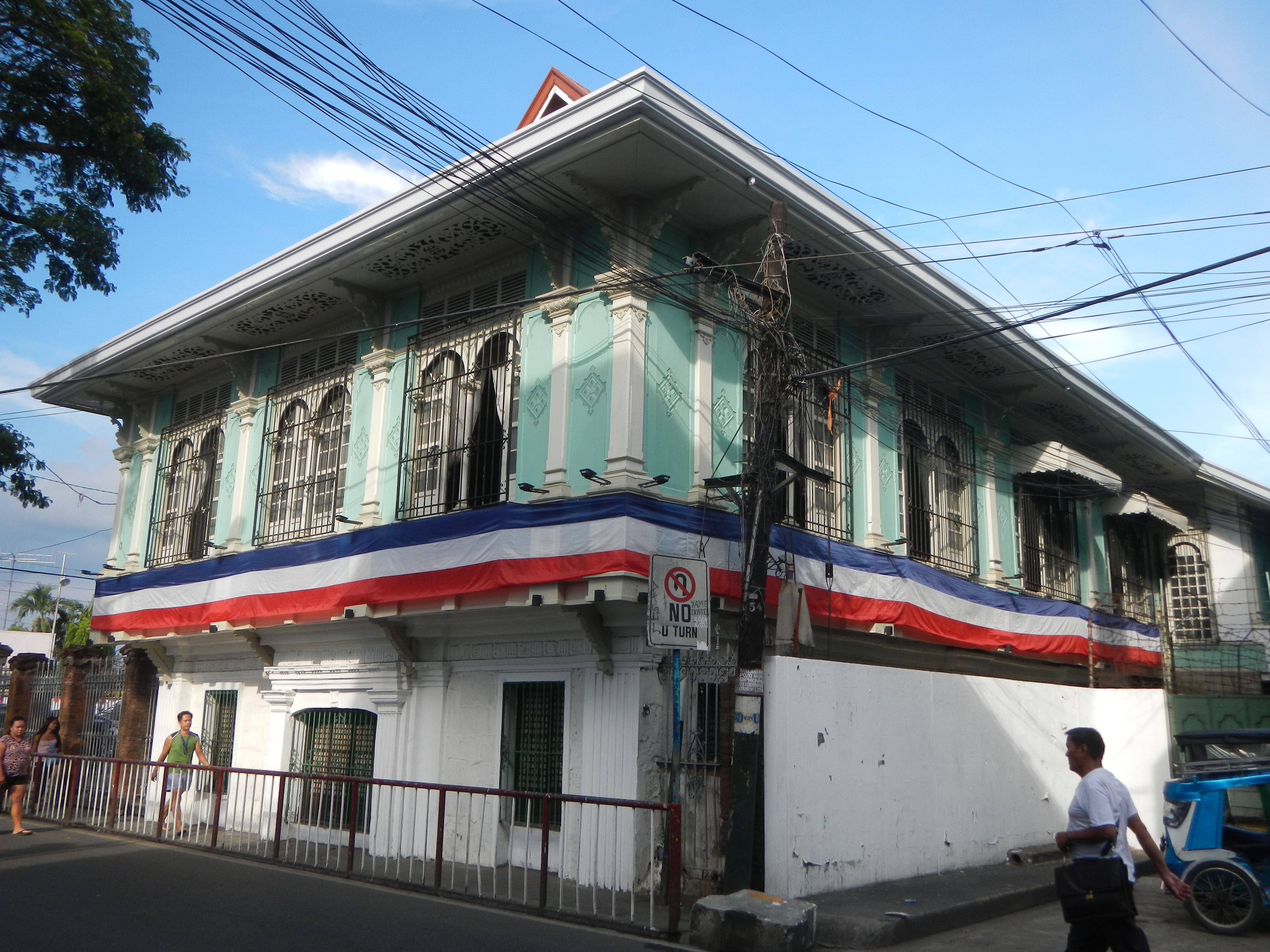 The Facade, Exterior is recently restored, renovated Baliuag Museum and Library or Museo ng Baliuag (Sentro ng Kalinangan at Kasaysayan ng Baliuag, formerly known as "Lumang Municipio" or Old Municipal Building) in Poblacion, Baliuag, Bulacan, province; on August 28, 2015, the National Museum of the Philippines by its Historical Marker for the Old Municipio of Baliuag, Bulacan, has Officially Declared it as Important Cultural Property Important Cultural Properties of the Philippines, under Sec. 5 of R.A. No. 10066, National Cultural Heritage Act of 2009, Lists of Cultural Properties of the Philippines, List of historical markers of the Philippines in Central Luzon in Bulacan; Tahanan ng Kasaysayan at Kalinangan ng Baliwag under Kapasiyahan Blg. 40. 2015 Sangguniang Bayan, Tourism BulacanLandmark).